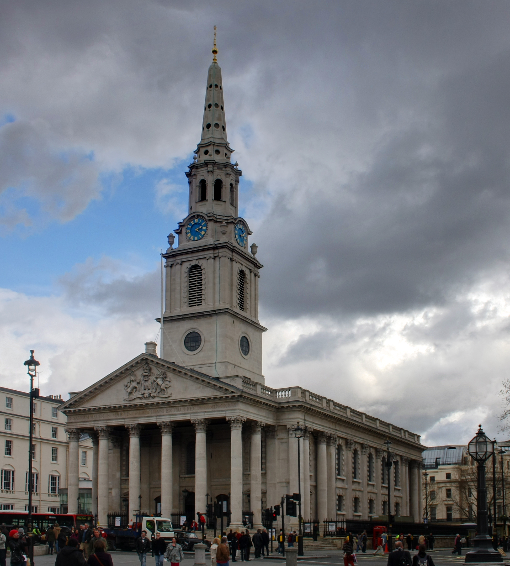 St Martin-in-the-Fields, Anglican church by Trafalgar Square in London